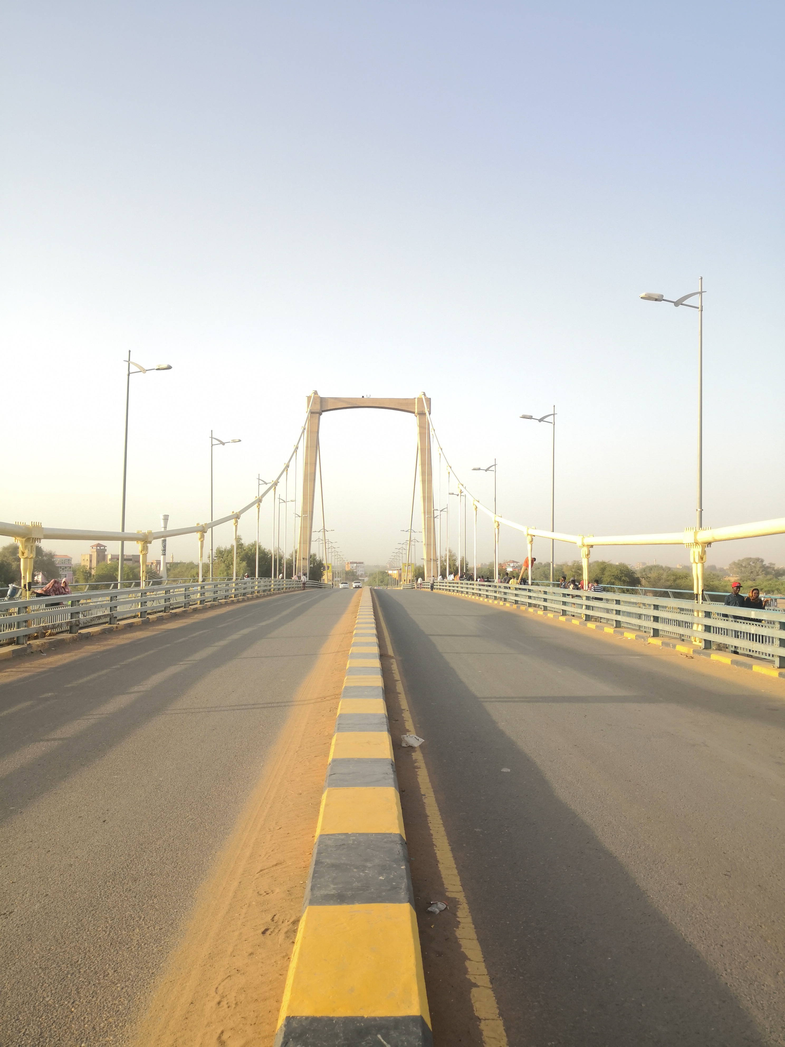 صورة توضح وسيط نقل كوبري توتي WLASudan2020 This is an image with the theme "Africa on the Move or Transport" from: Sudan